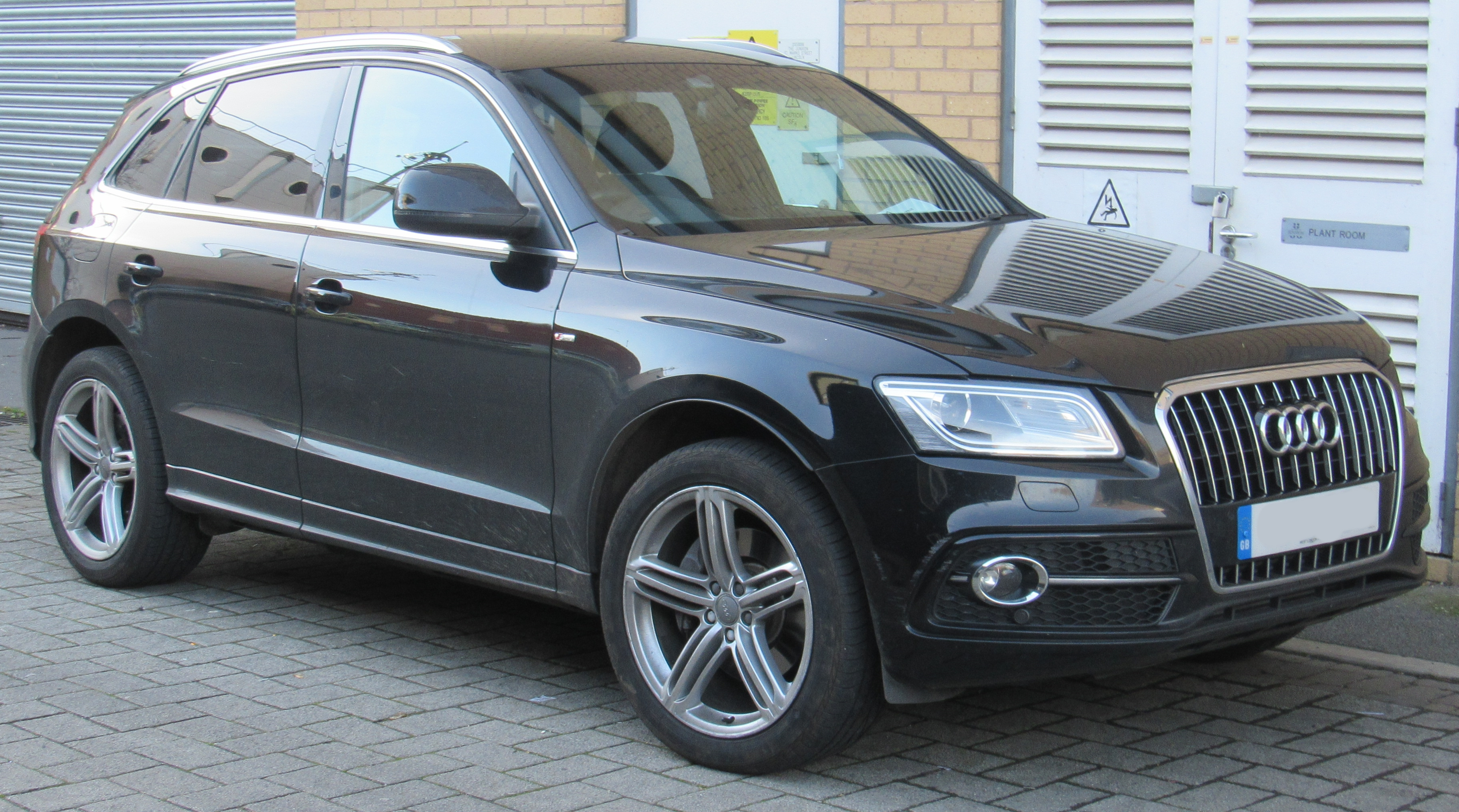 2014 Audi Q5 S Line Plus TDi Quattro 3.0 Front Taken in Lincoln, England